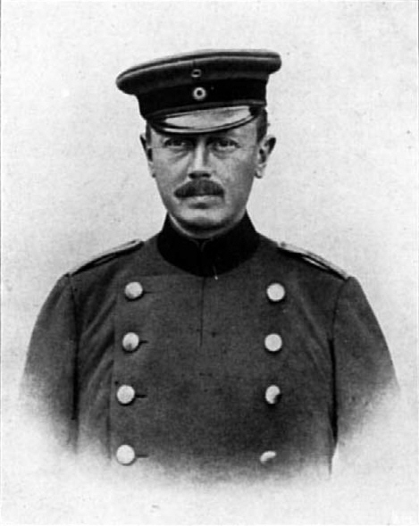 Rudolf Hans Bartsch von Sigsfeld (1861-1902), German balloonist and airship designer